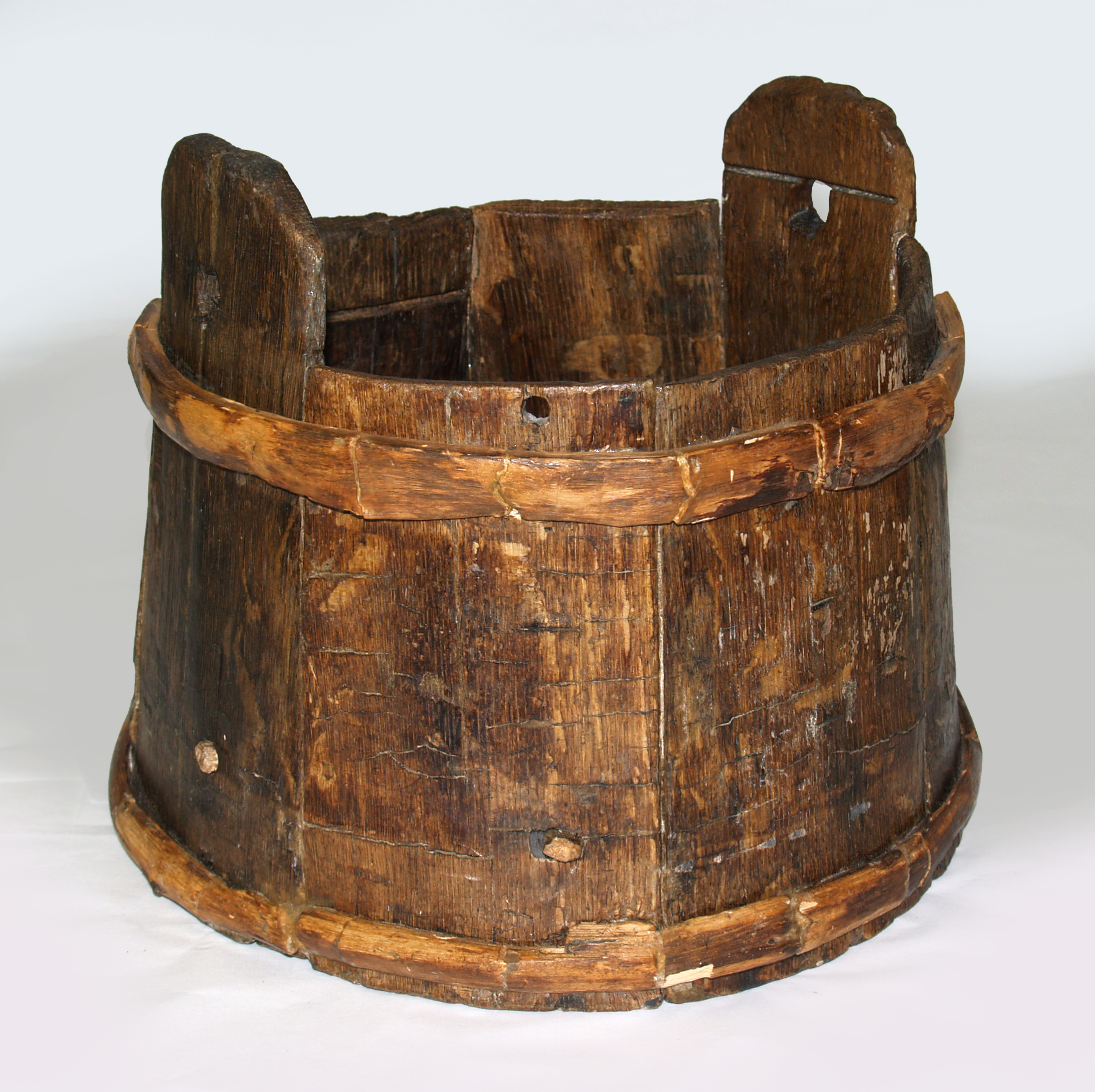 Wooden bucket found on board the 16th century carrack Mary Rose.